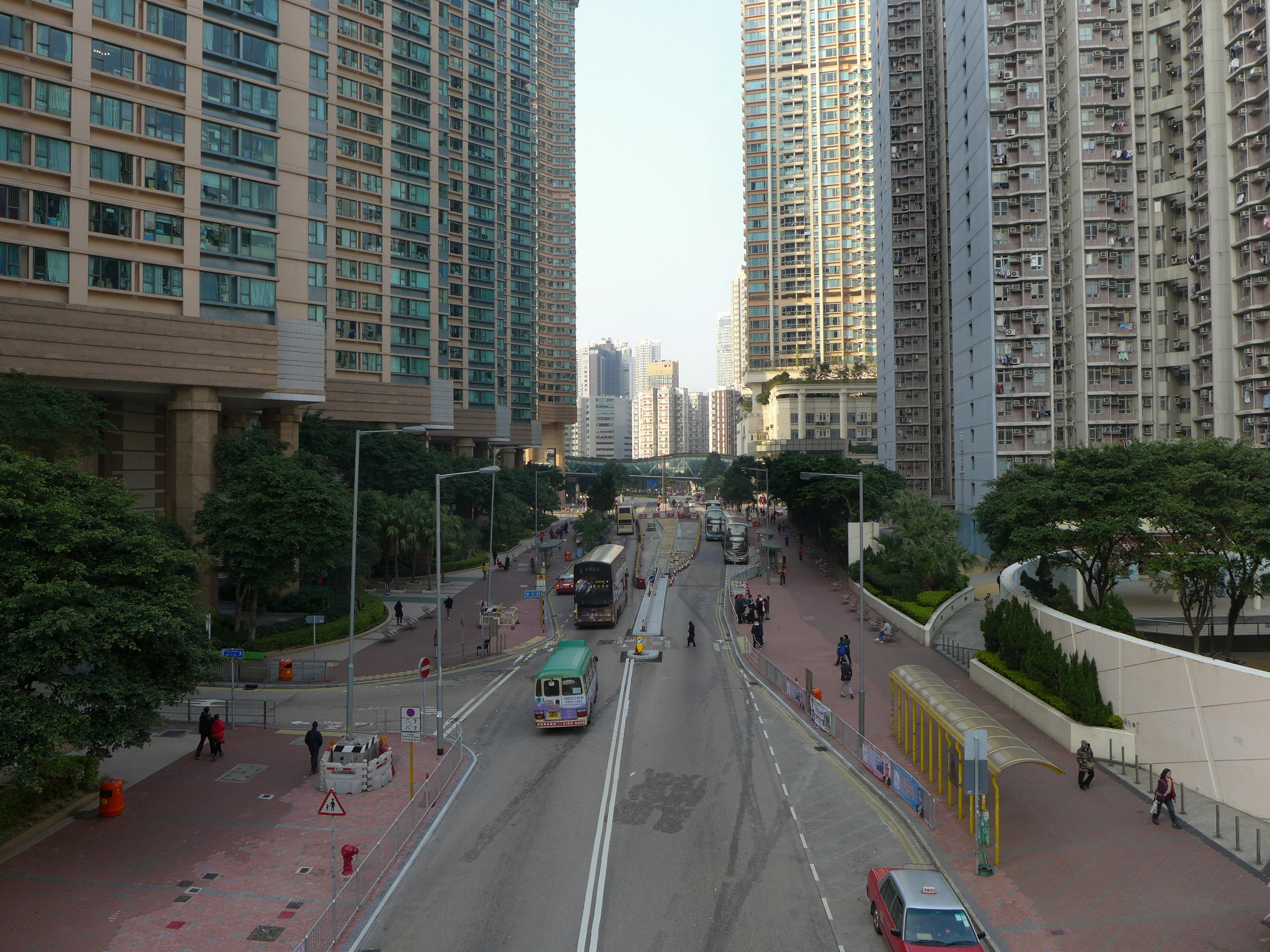 Hoi Wang Road